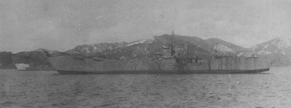 IJA SB craft No.101 (this side) and No.108 (left, white bow)